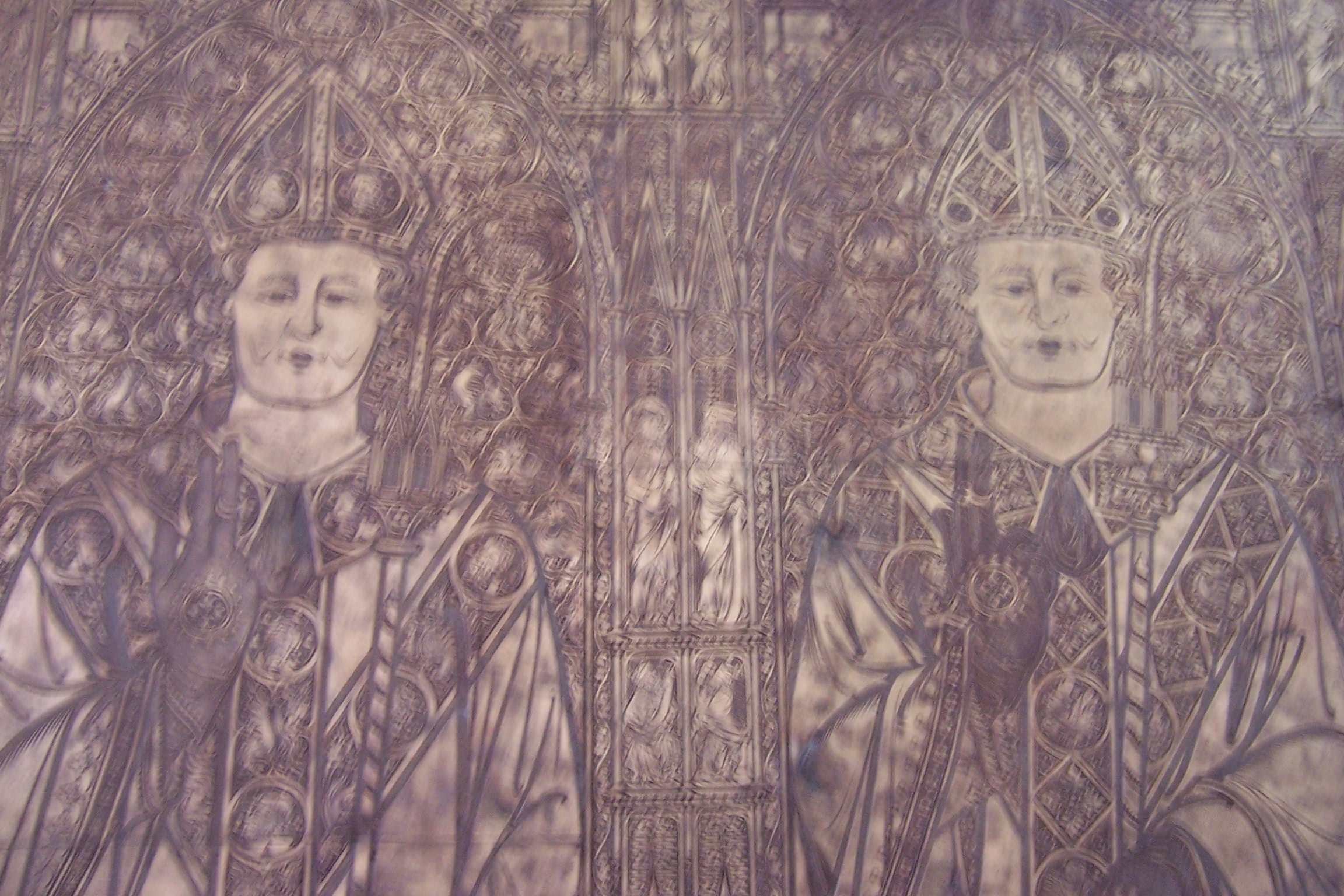 Detail of brass grave plate of bishops Burkhard von Serkem and Johannes Mul, Lübeck, Dom/Cathedral